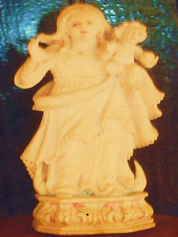 Ivory Statue of Mary at Kandyan Times